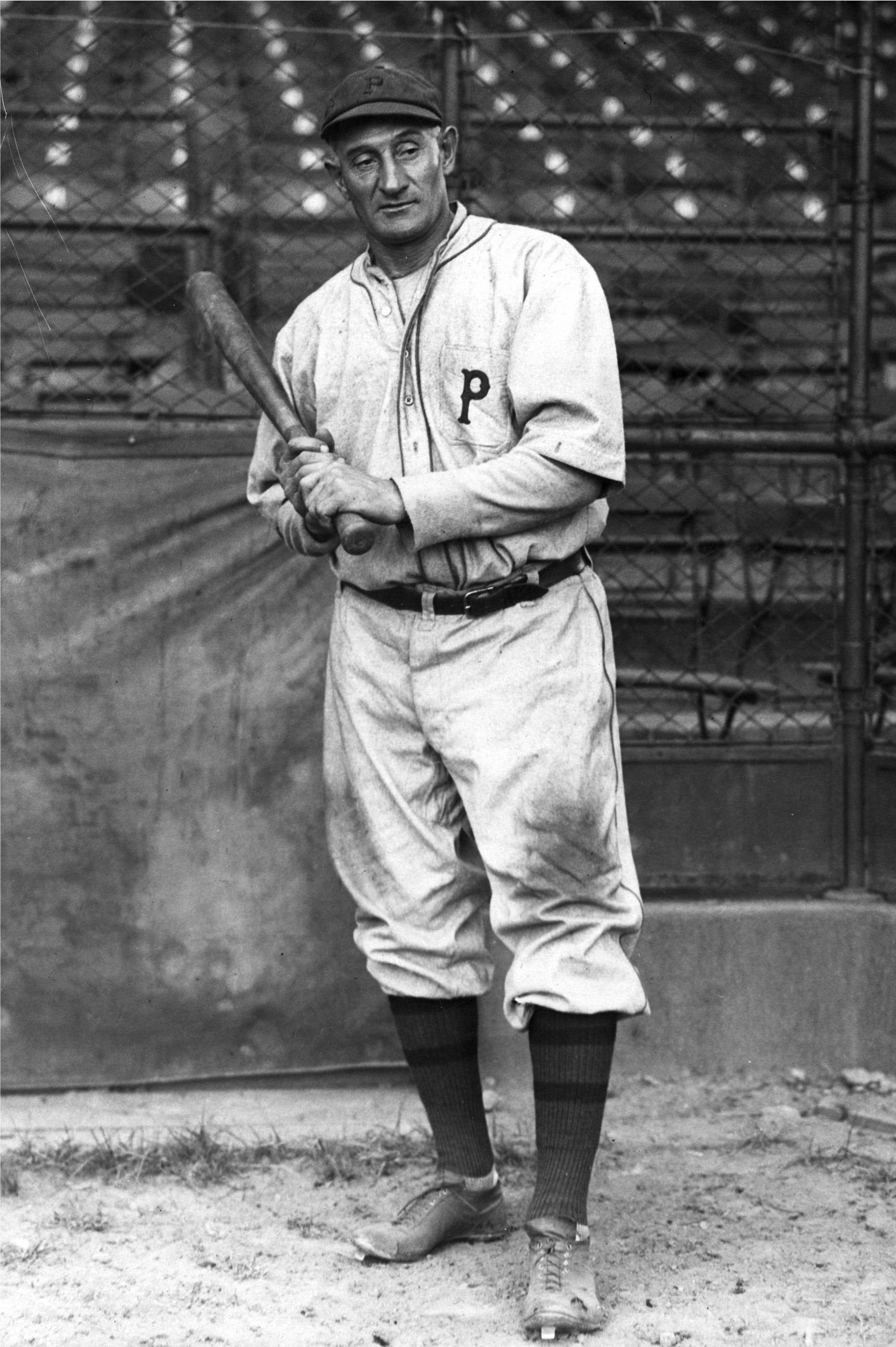 Honus Wagner, Pittsburgh Pirates - BL-1544-68